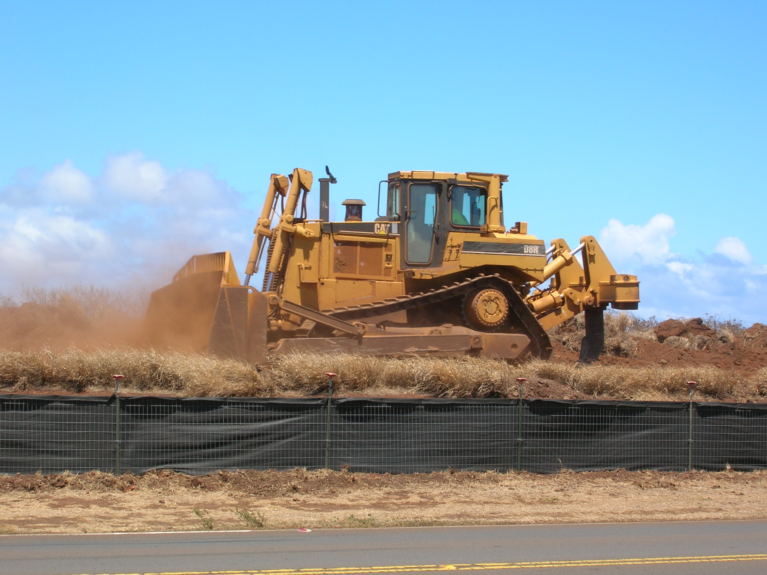 Cenchrus ciliaris (habit and dozer). Location: Maui, Airport Kahului